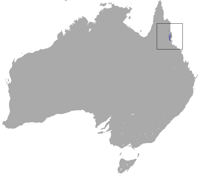 Lemur-like Ringtail Possum (Hemibelideus lemuroides) range